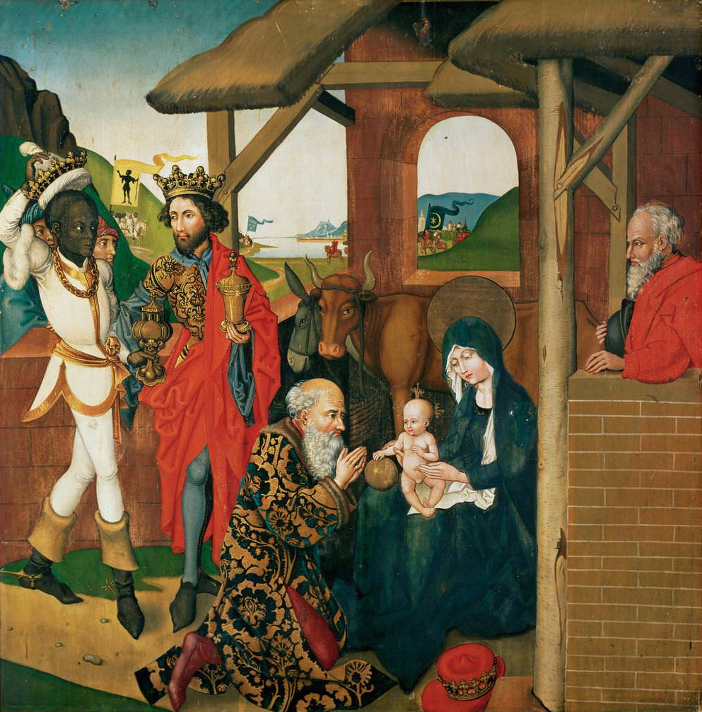 Artist: Martin Schongauer (ca 1450–1491) Art style: Gothic art Title: The adoration of the kings panel of the high altar of the Dominican church Colmar (1480/1490) Size: 116 x 116 cm (45,6 x 45,6 inches) Location: Colmar, Unterlinden-Museum Picture number:1001571 EAN-Number: 4050356079157